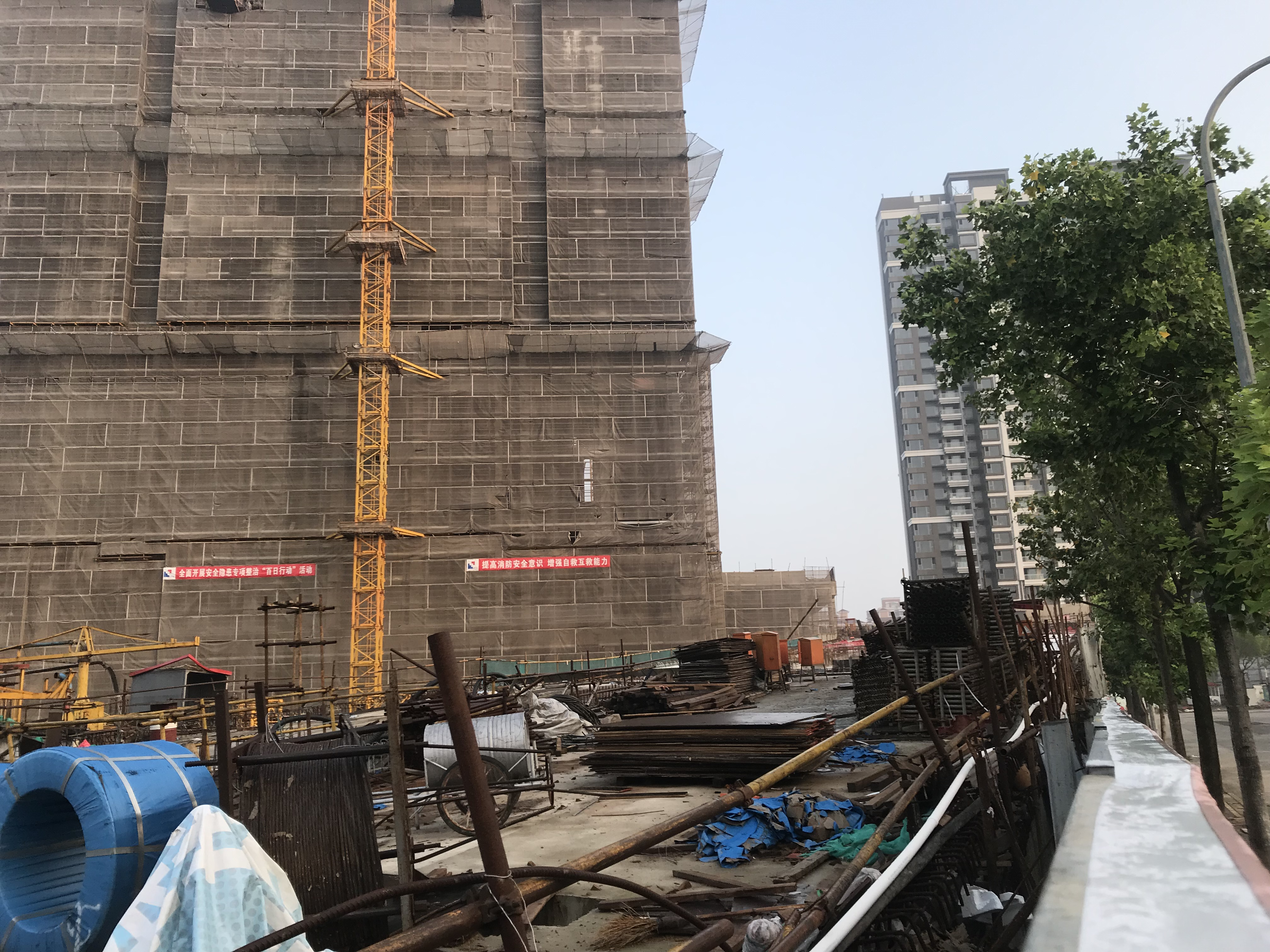 201907 Ramp of Dushi Road at TODTOWN under Construction